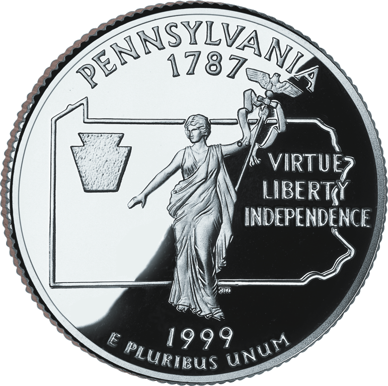 Removed background, cropped, and converted to PNG with Macromedia Fireworks. This image depicts a unit of currency issued by the United States of America. If Fraudulent use of this image is punishable under applicable counterfeiting laws. As listed by the United States Secret Service at money illustrations, the Counterfeit Detection Act of 1992, Public Law 102-550, in Section 411 of Title 31 of the Code of Federal Regulations (31 CFR 411), permits color illustrations of U.S. currency provided:1. The illustration is of a size less than three-fourths or more than one and one-half, in linear dimension, of each part of the item illustrated;2. The illustration is one-sided; and3. All negatives, plates, positives, digitized storage medium, graphic files, magnetic medium, optical storage devices, and any other thing used in the making of the illustration that contain an image of the illustration or any part thereof are destroyed and/or deleted or erased after their final use. Certain coins contain copyrights licensed to the U.S. Mint and owned by third parties or assigned to and owned by the U.S. Mint [1]. For the United States Mint circulating coin design use policy, see [2]; for the policy on the 50 State Quarters, see [3]. Also: COM:ART #Photograph of an old coin found on the Internet